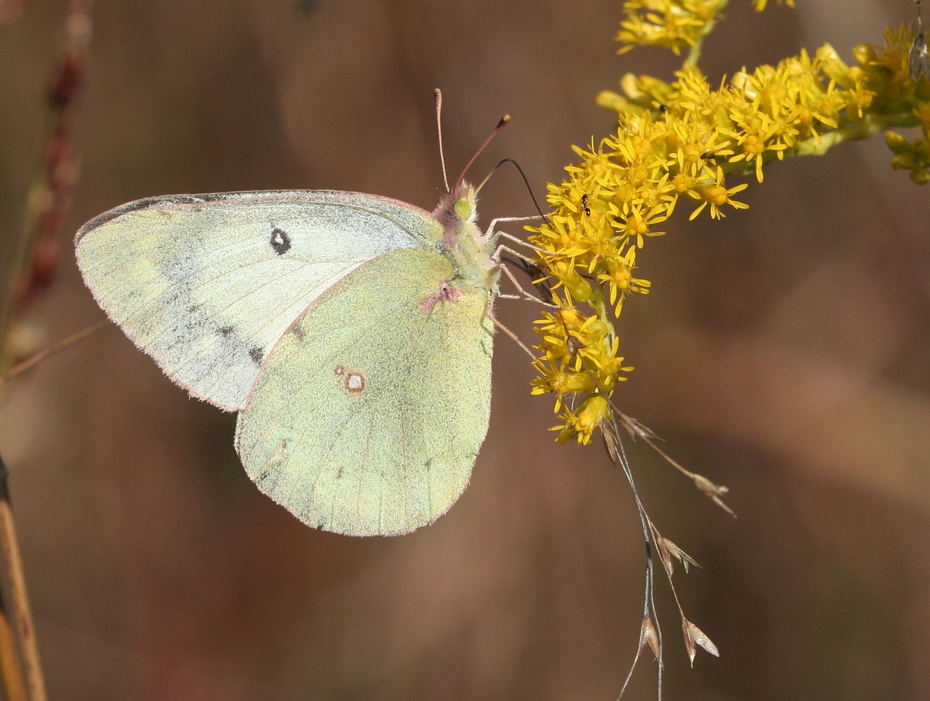 Albino Clouded Sulphur (Colias philodice) on Solidago